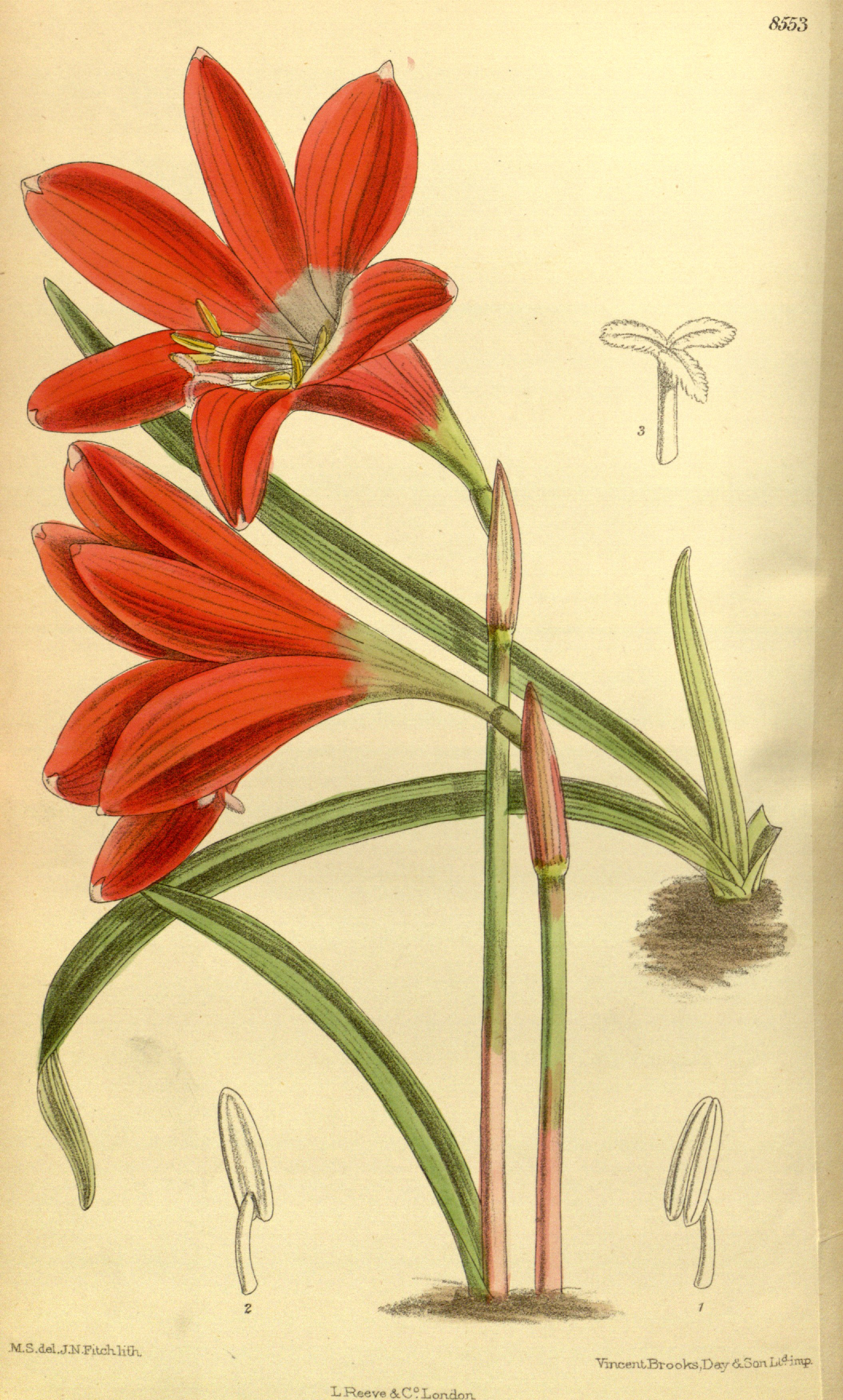 Zephyranthes cardinalis, Amaryllidaceae